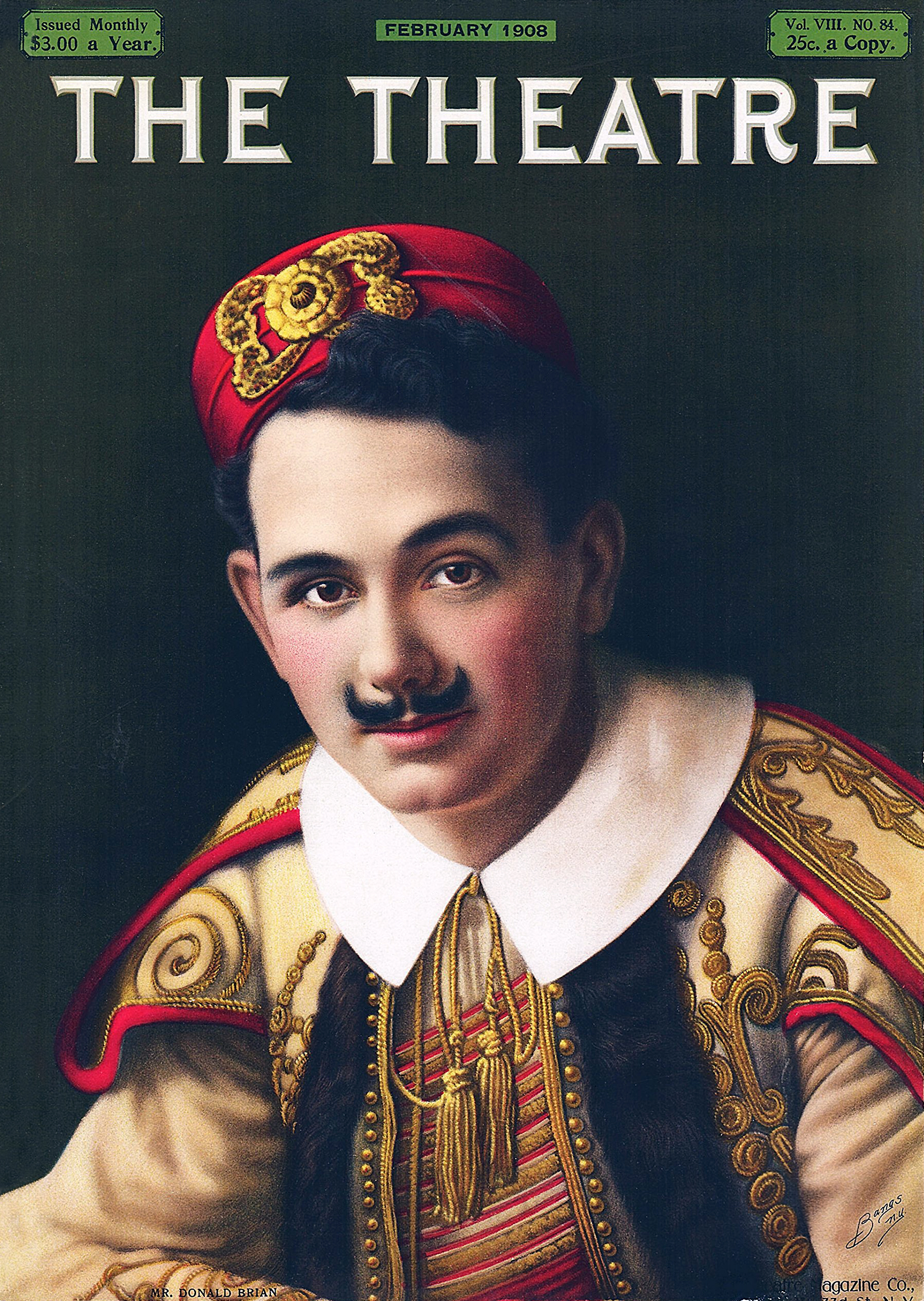 Image of Daniel Brian as Danilo in the Broadway production of The Merry Widow, on the cover of The Theatre magazine, Volume VIII, No. 84, February 1908